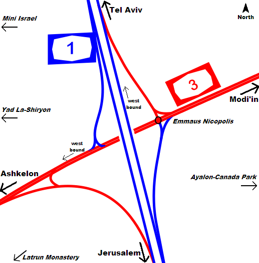 Junction of Israel Highways 1 and 3